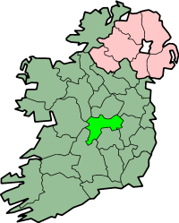 map of County Offaly, Ireland 08:07, 5 February 2004 Morwen 200x249 (30677 bytes) (map)